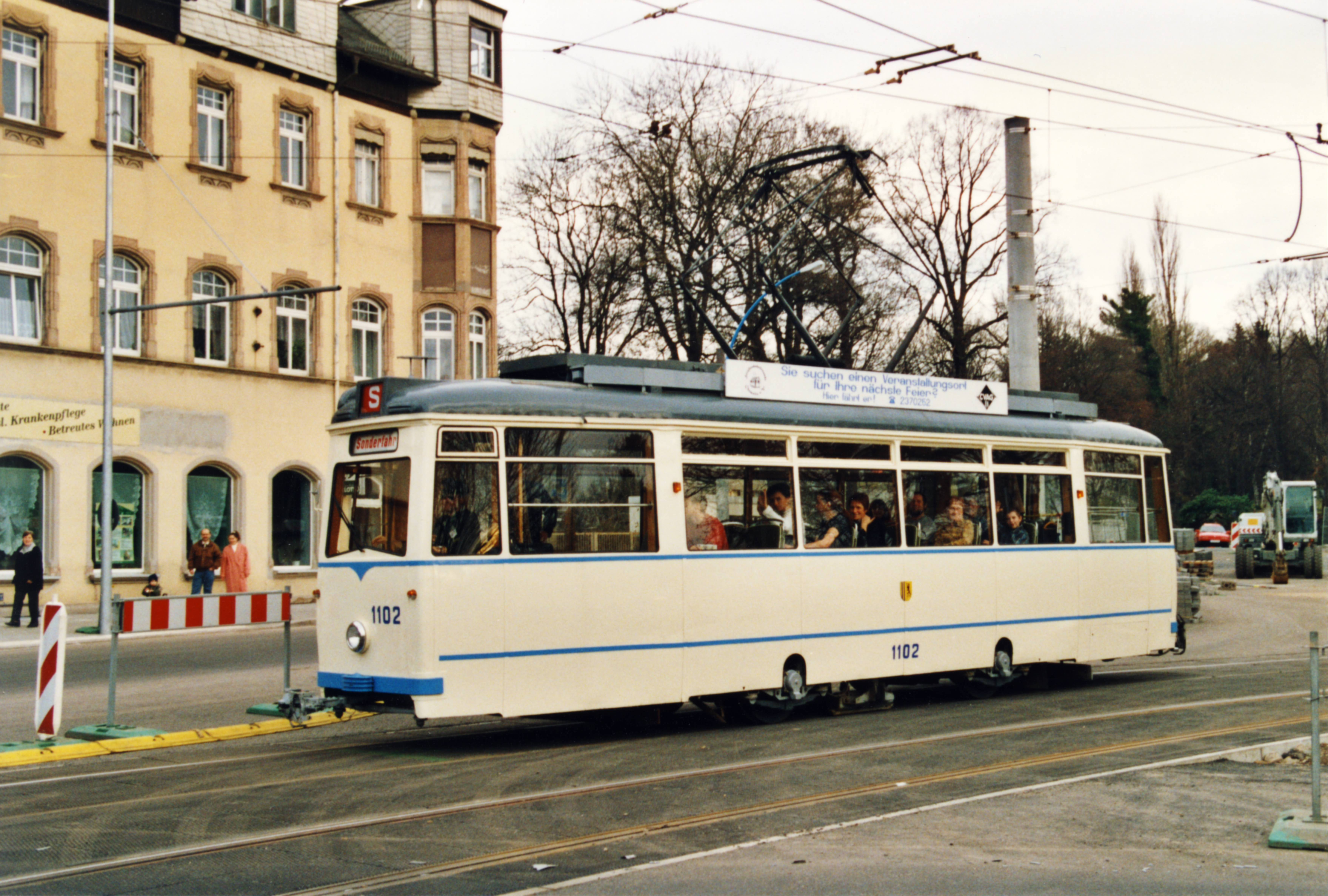 Historic tramway from Chemnitz, Germany